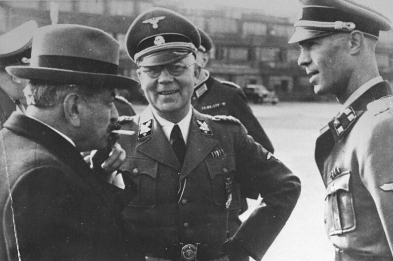 Paris, German Police Headquarters, 1 May 1943, Prime Minister of France Pierre Laval, Höherer SS- und Polizeiführer SS-Gruppenführer Carl Oberg and SS-Sturmbannführer Herbert Martin Hagen [1]